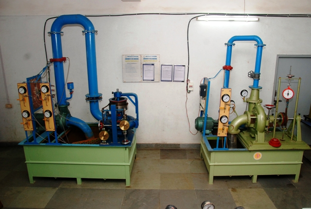 applied hydraulics lab of rizvi college of engineering in mumbai, india.